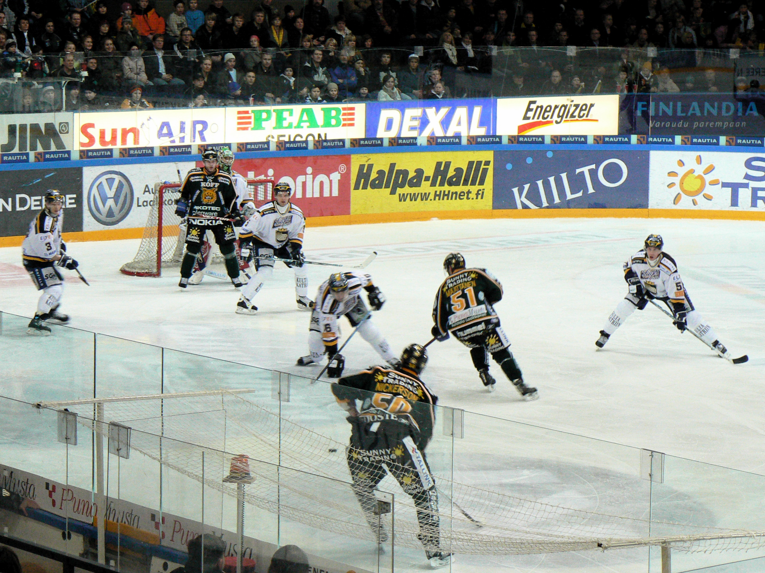 Ilves Tampere vs. Blues Espoo, February 2008. Players from left to right are Santeri Heiskanen (white #3), Sami Torkki, Bernd Brückler, Miika Huczkowski (white #5), Pasi Tuominen (white #16), Matt Nickerson (green #50), Pasi Määttänen (green #51), and Tomi Sallinen (white #57).